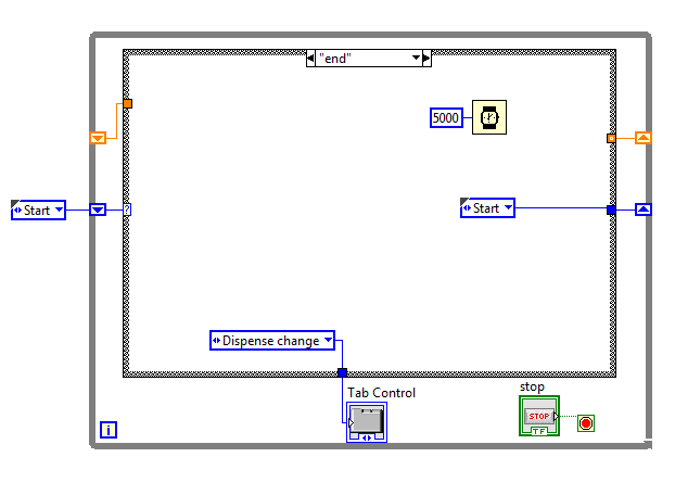 This is a picture of the End case of the LabVIEW program used to simulate a simplified soda machine.